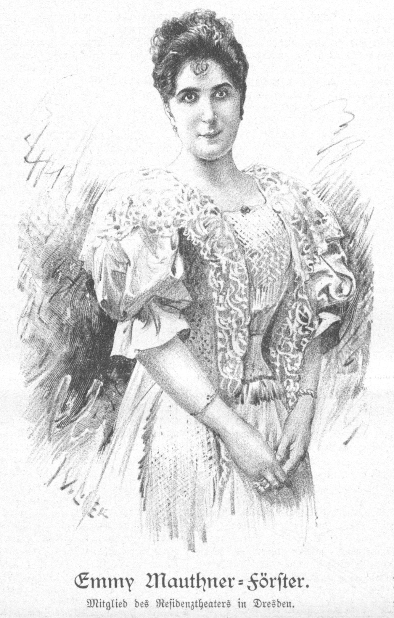 Portrait of Emmy Mauthner-Förster, Austrian actress active mainly in the 1880s and 1890s.